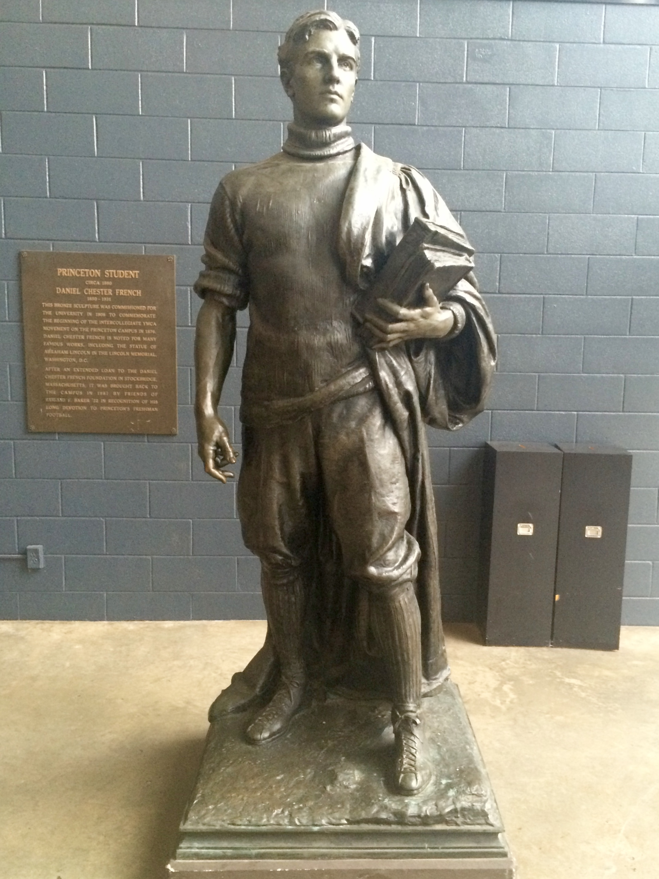 The Christian Student by Daniel Chester French, ca. 1880 in the lobby of Jadwin Gymnasium at Princeton University a memorial likeness of W. Earl Dodge, class of 1879.